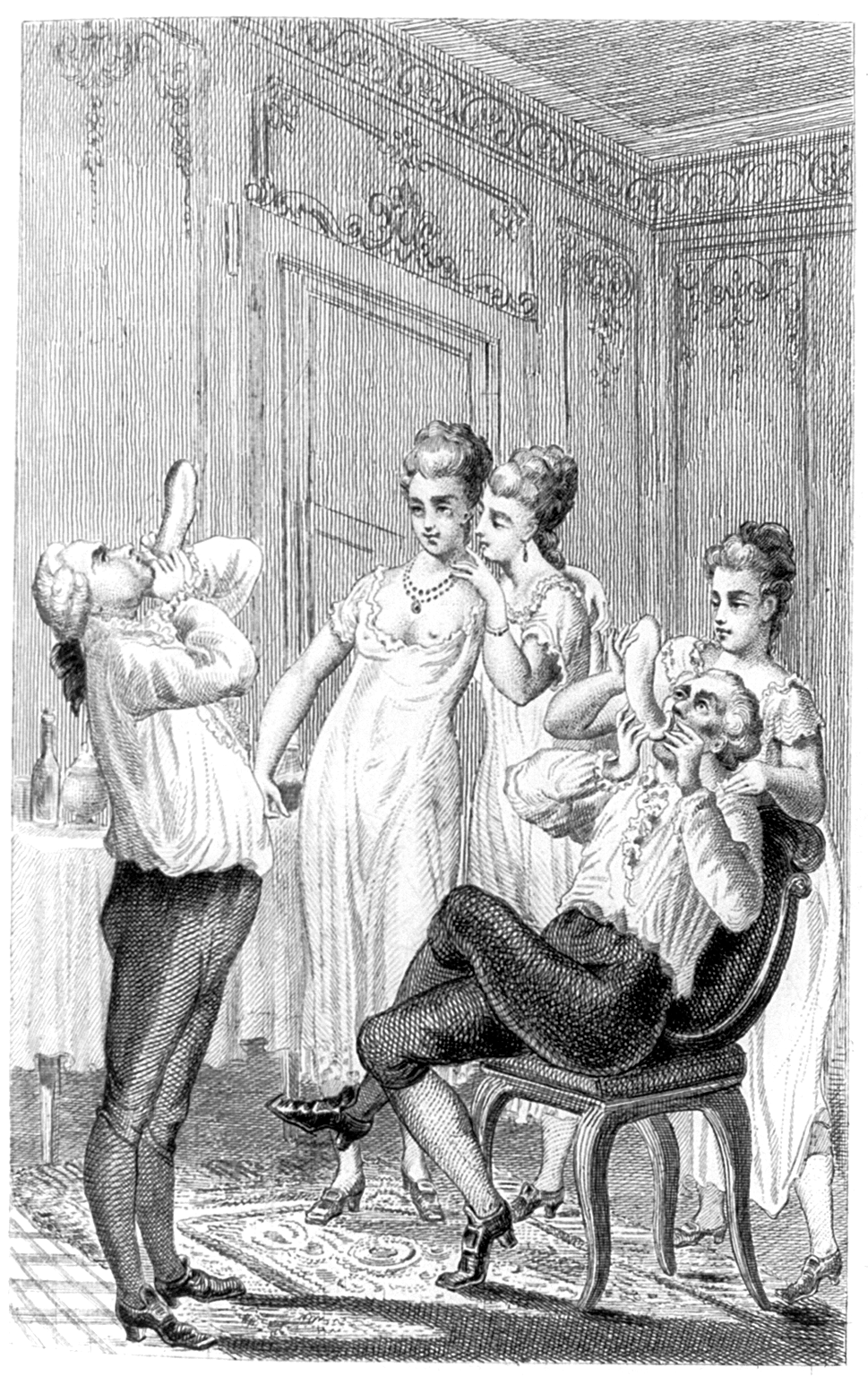 [Casanova (left) and the condom]. Engraving in[1]: Casanova, Giacomo / Mémoires, écrits par lui-même, Bruxelles, J. Rozez, 1872, vol. 4 (read text excerpt below).